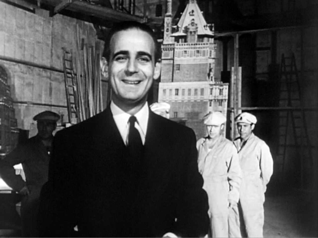 Screenshot of Paul Stewart from the Citizen Kane trailer